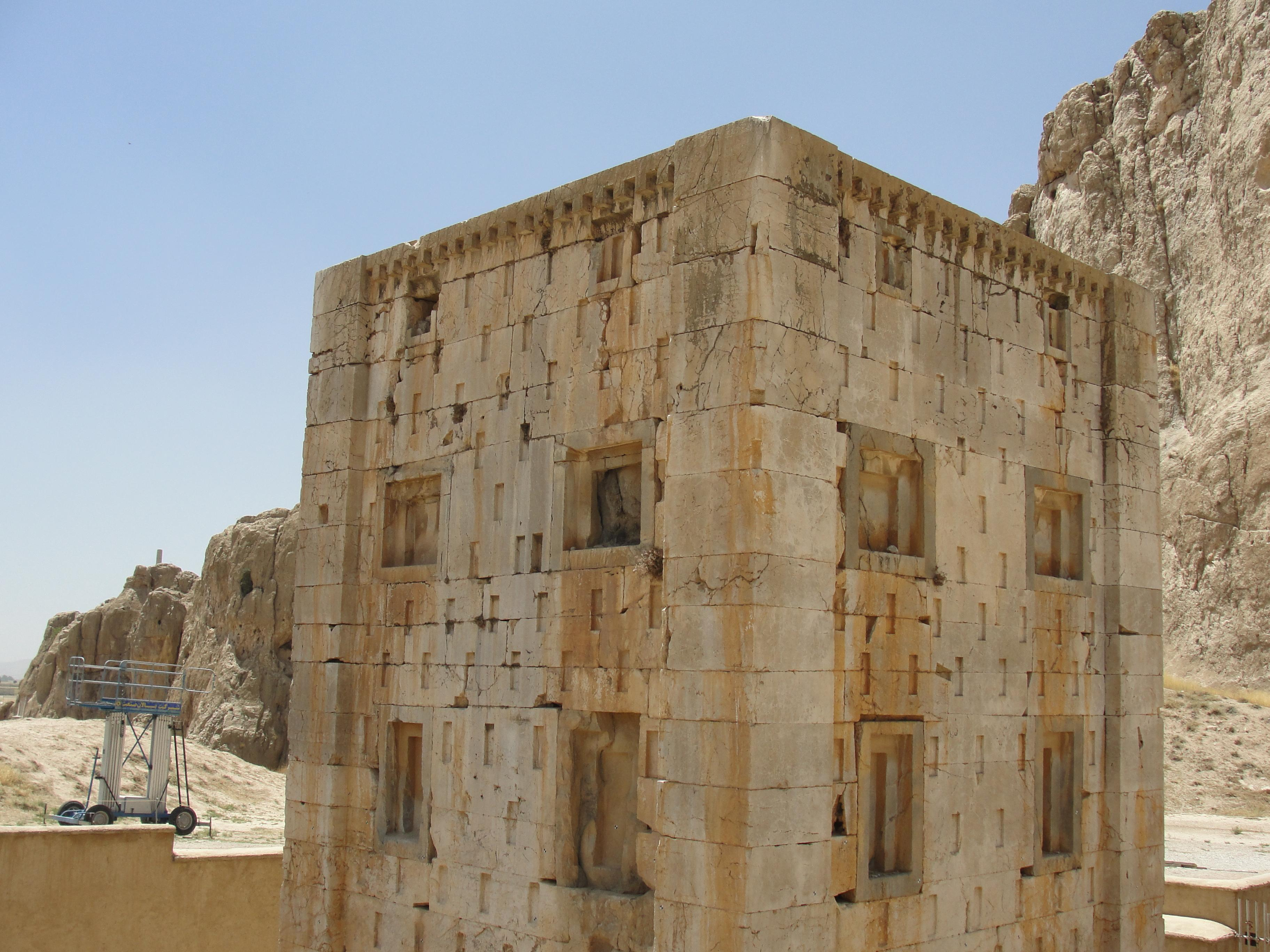 Ka'ba-ye Zartosht in Naqsh-e-Rostam, Iran